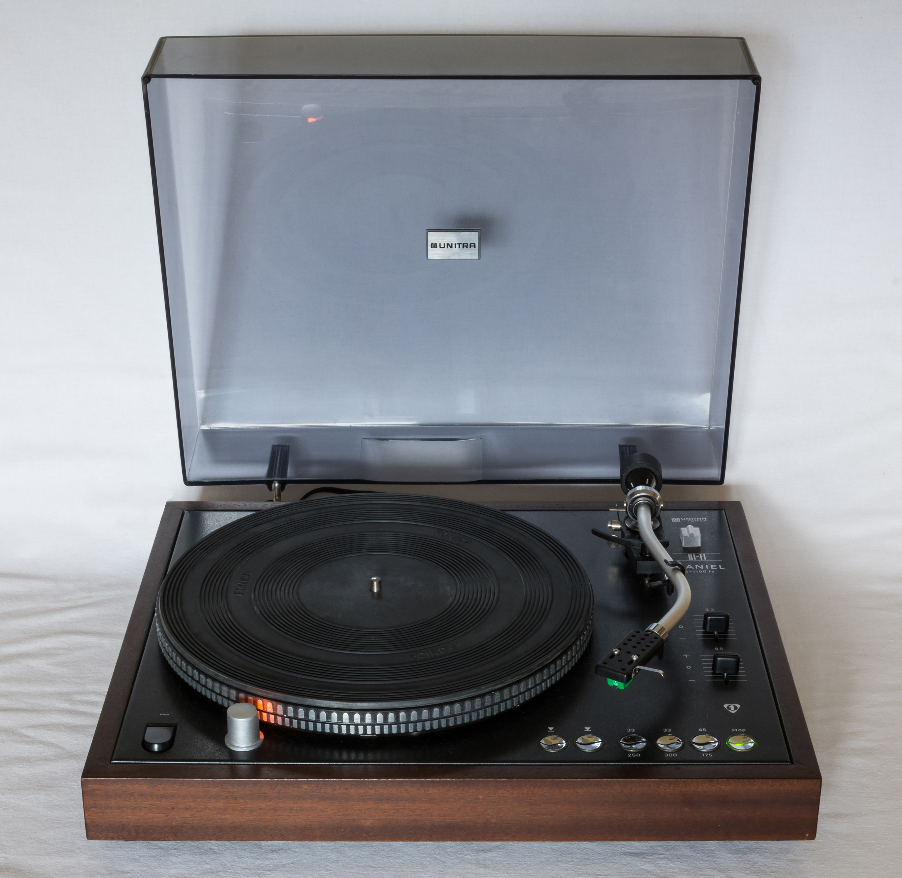 Daniel G-1100 fs turntable